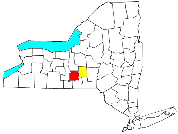 Locator map of the Ithaca-Cortland Combined Statistical Area in the central part of the U.S. state of New York. The two components of the CSA are colored separately: Ithaca Metropolitan Statistical Area: red Cortland Micropolitan Statistical Area: yellow